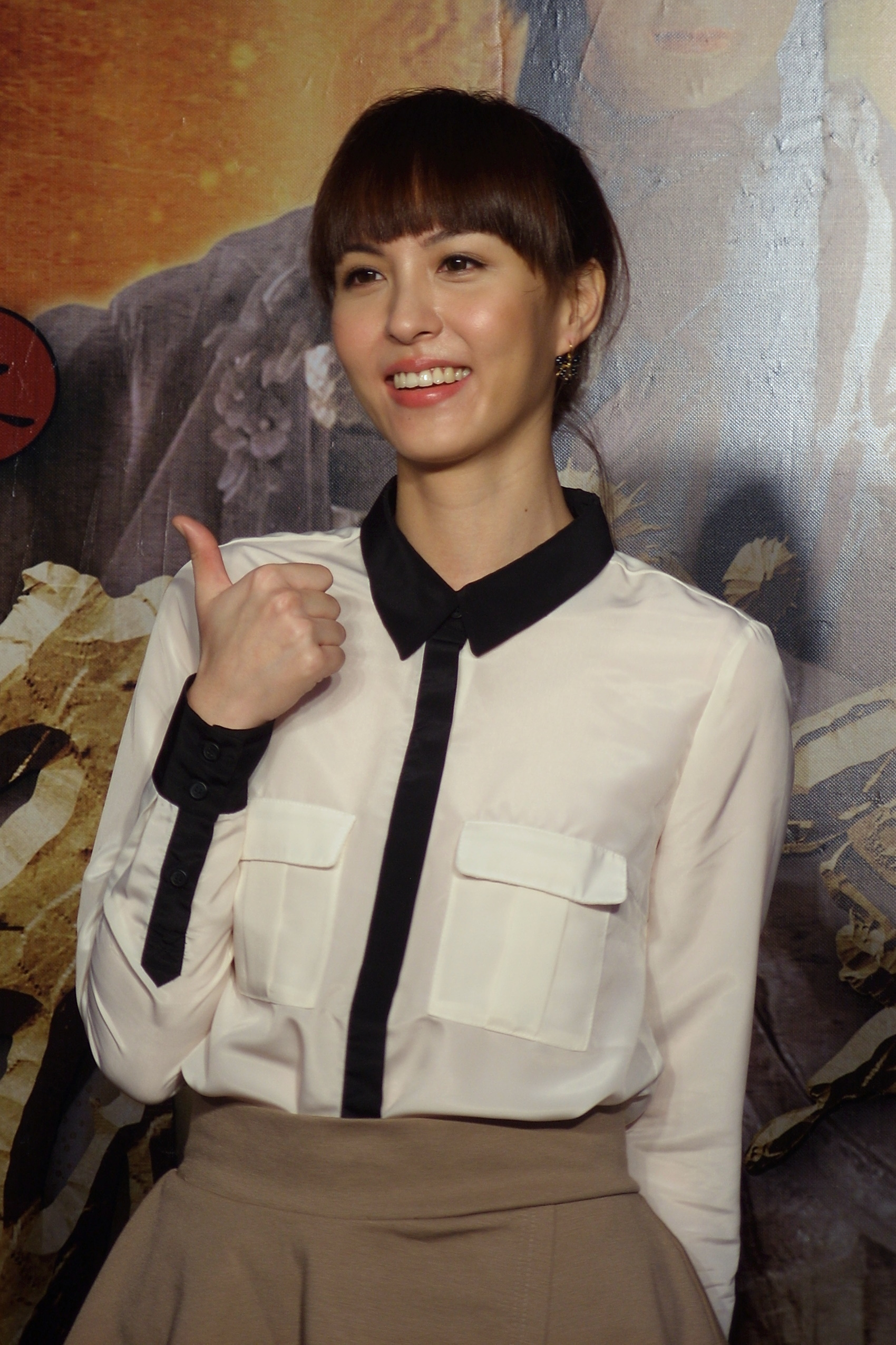 Mandy Wei.